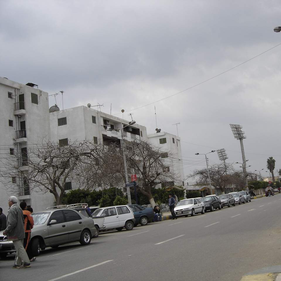 Benha city (Al-Qaliubia - Egypt)